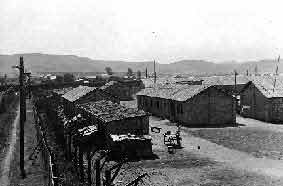 The Gilgil internment camp in Kenya